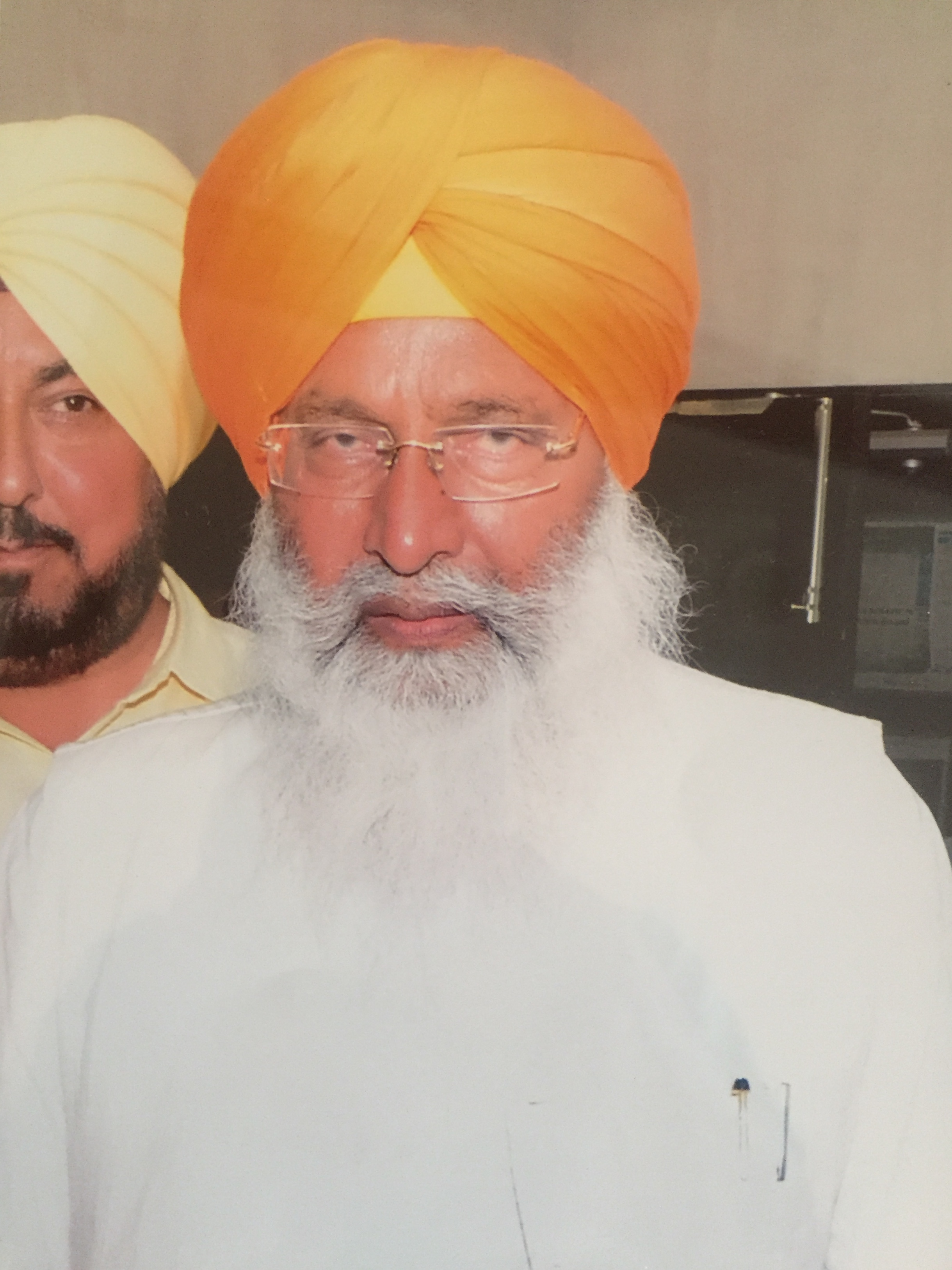 Sukhdev Singh Dhindsa in a party meeting.